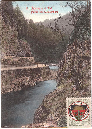 Weißenburg Tunnel in Weißenburggegend in Frankenfels